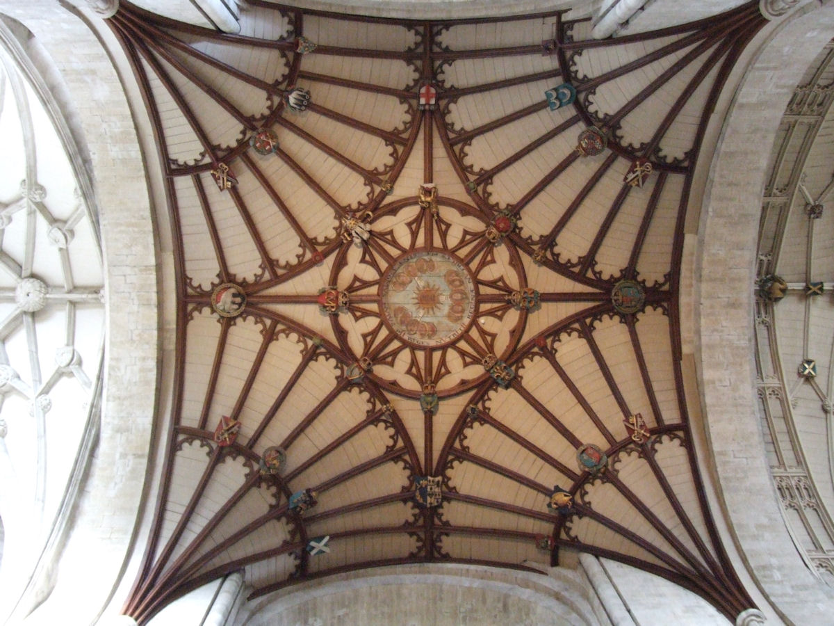 Winchester Cathedral, Winchester, England